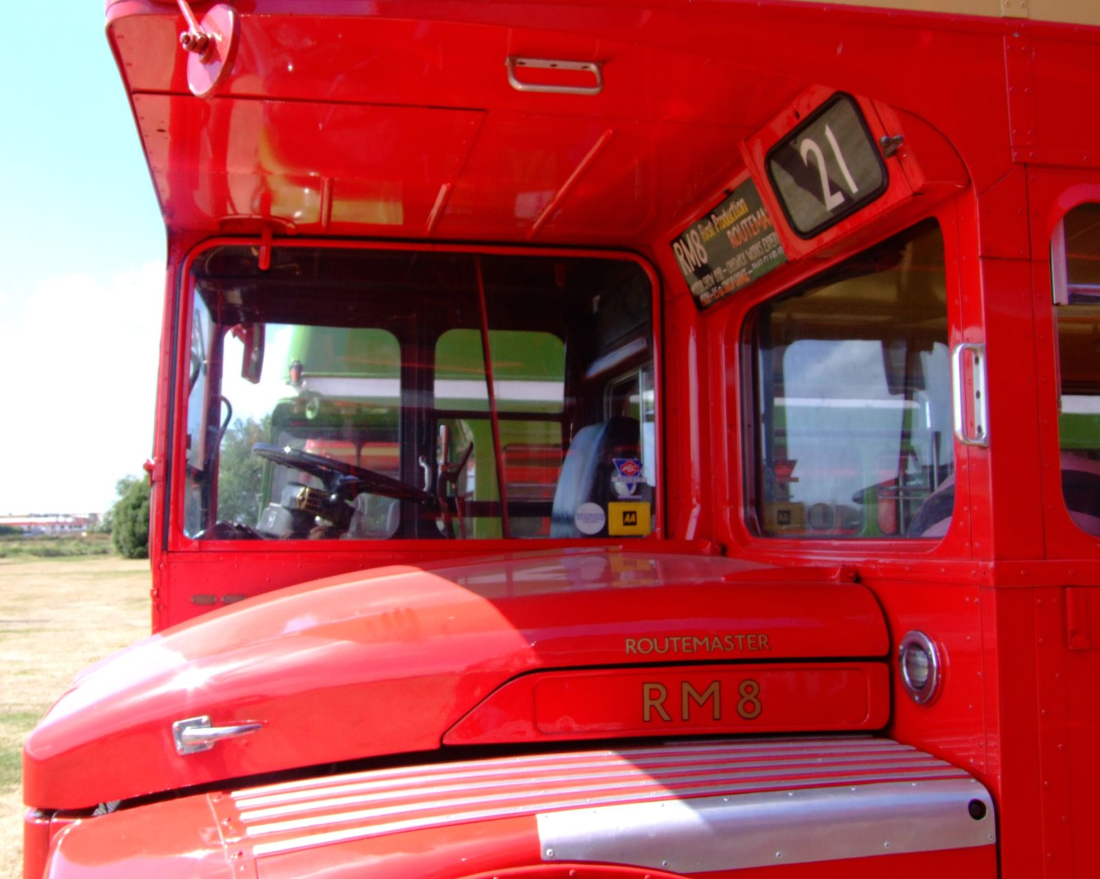 The driver's cab of preserved Routemaster bus RM8 (reg. VLT 8), pictured at the 2006 Worthing bus rally. It was the first production Routemaster bus, although it was used for 18 years as a test platform, and did not enter normal service until 1976.